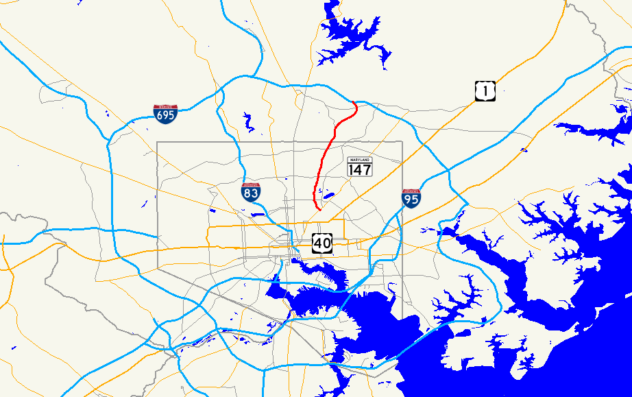 Map of Maryland Route 542